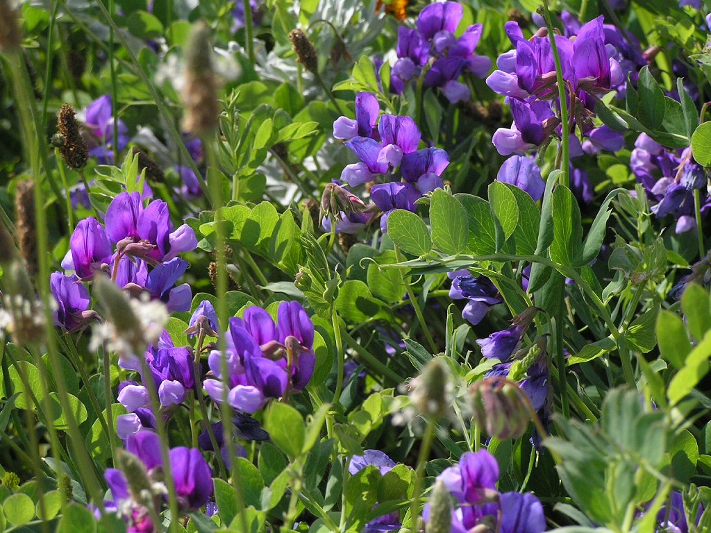 Lathyrus_japonicus P6240223 ハマエンドウ